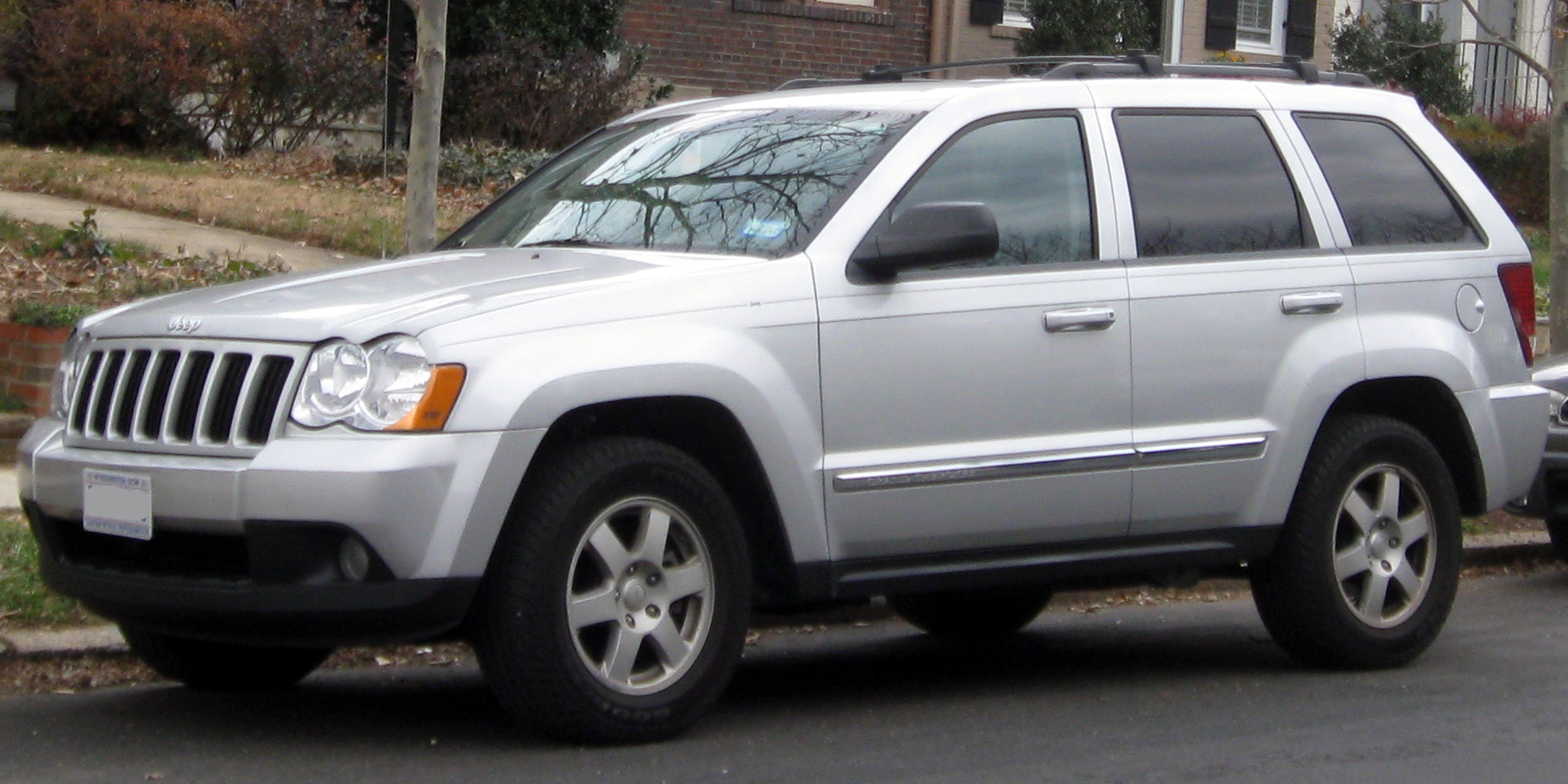 2008-2010 Jeep Grand Cherokee photographed in Washington, D.C., USA.